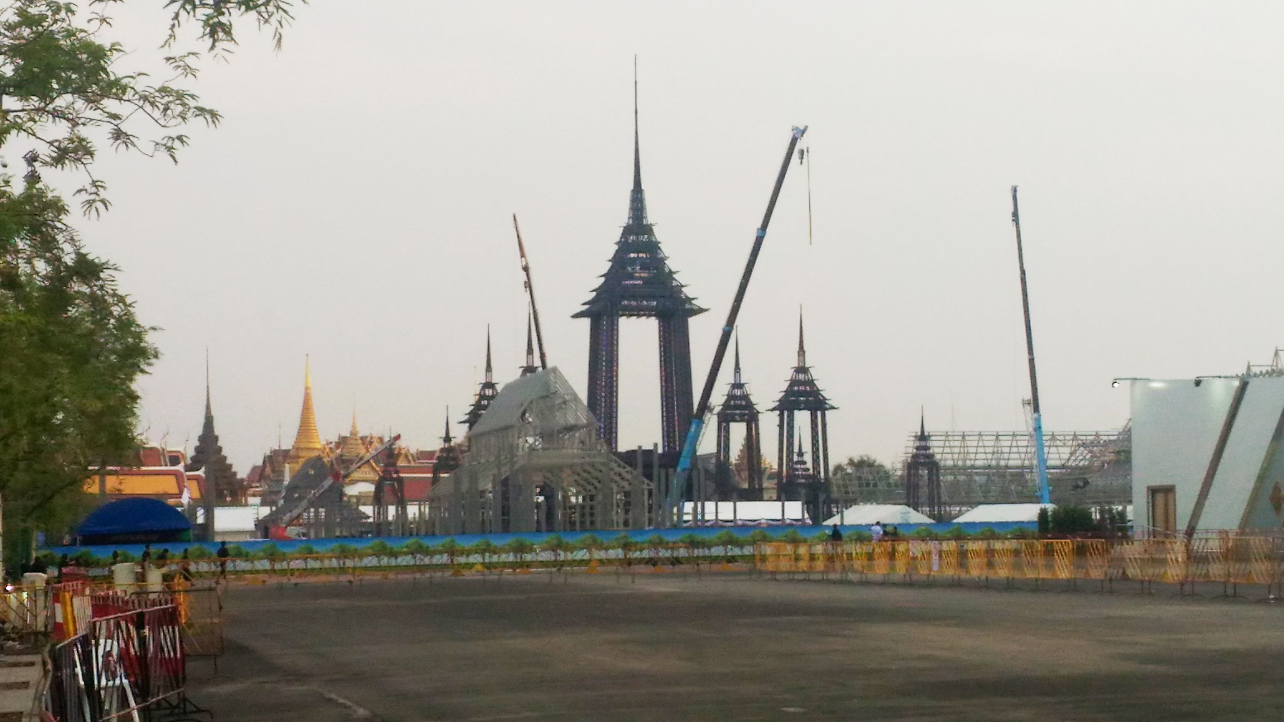 Construction of the Royal Crematorium of King Rama IX of Thailand at Sanam Luang, Bangkok, Thailand, as seen in 27 April 2017.